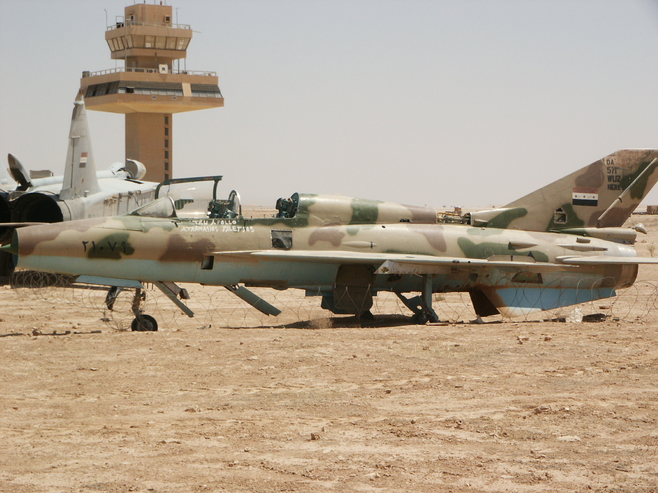 Abandoned Iraqi aircraft at Al Asad air base in western Iraq Side view of Mig-21 and rear view of Mig-25 in the background.